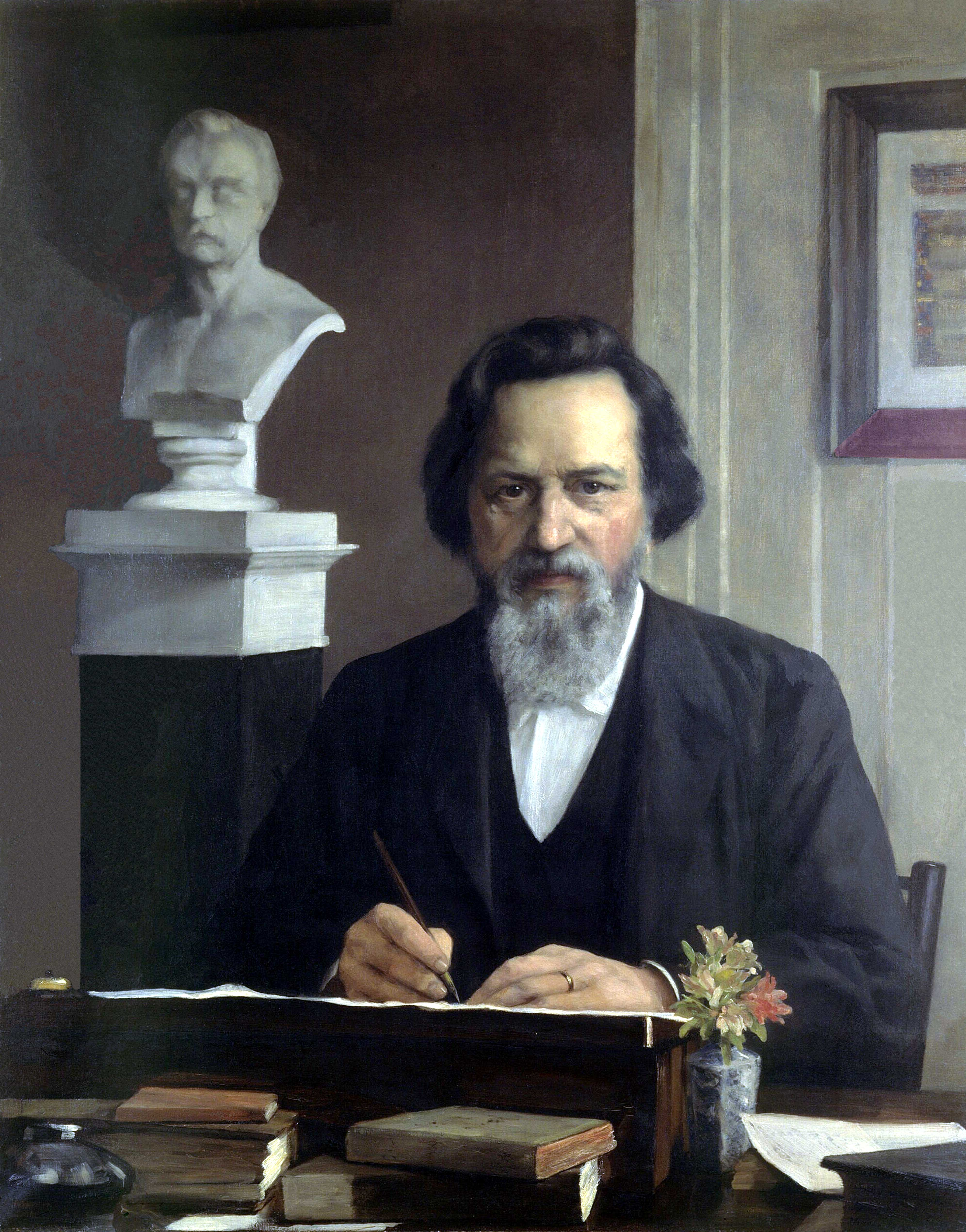 Franciscus Cornelis Donders (1818–1889), Dutch physiologist and ophthalmologist